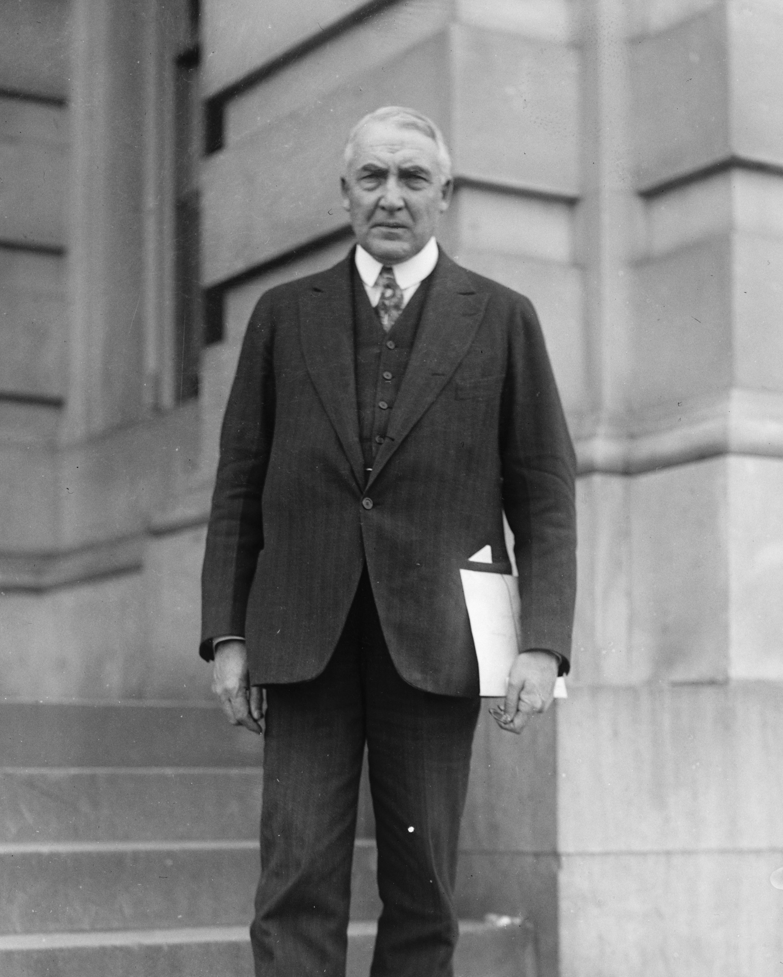 Title: Sen. Warren S. [G.] Harding Abstract/medium: 1 negative : glass ; 4 x 5 in. or smaller